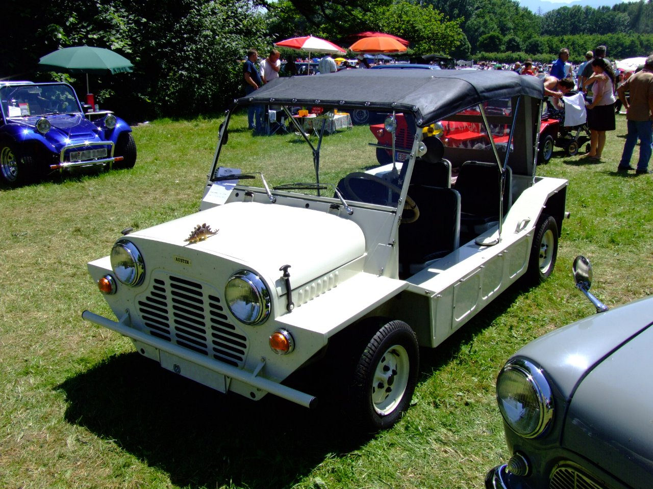 Summary Austin Mini Moke Baujahr: 1967 34 PS Quelle: selbst fotografiert, 06/2006 Fotograf: Späth Chr.